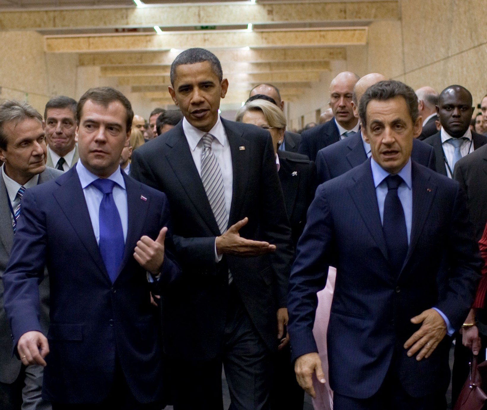 President Barack Obama walks with Russian President Dimitry Medvedev, left, and French President Nicolas Sarkozy, right, at the NATO Summit in Lisbon, Portugal, Nov. 20, 2010. (Official White House Photo by Pete Souza) This official White House photograph is in the public domain from a copyright perspective, so while restrictions such as personality or privacy rights may apply, in general, manipulations are allowed.